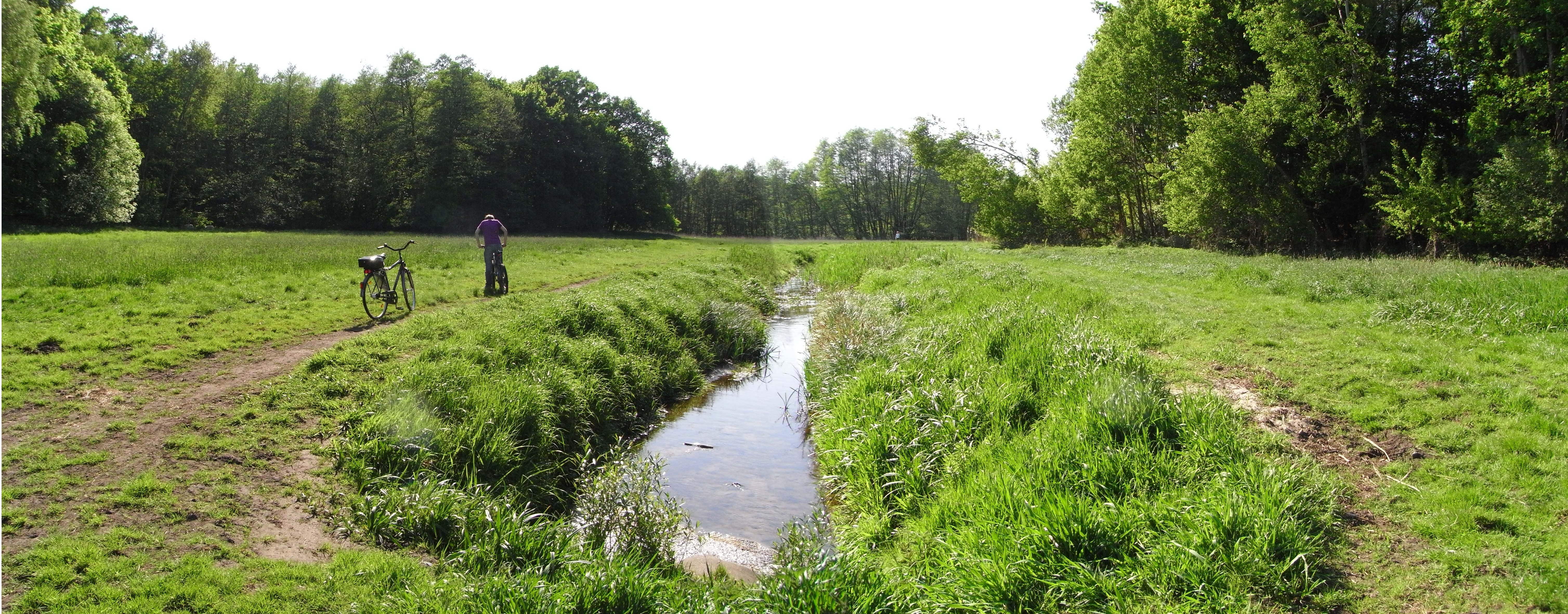 Kindelfließ between Glienicke/Nordbahn and Schildow in Brandenburg, Germany